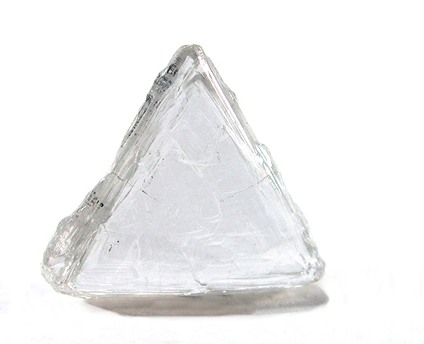 Diamond Locality: South Africa (Locality at ) Size: thumbnail, 1.2 x 1.2 x 0.15 cm Diamond (macle twinned) A superb, equant, incredibly sharp diamond crystal that looks naturally cut due to the rare macle-twinning. Rare in such size, in specimens! I have not been able to obtain a large macle like this in 2 years or so and the availability of raw uncut diamonds of such size is seemingly going down due to changes of price and infrastructure in the diamond market. MORE CLEAR IN PERSON! 3.28 carats, 1.2 x 1.2 x 0.15 cm